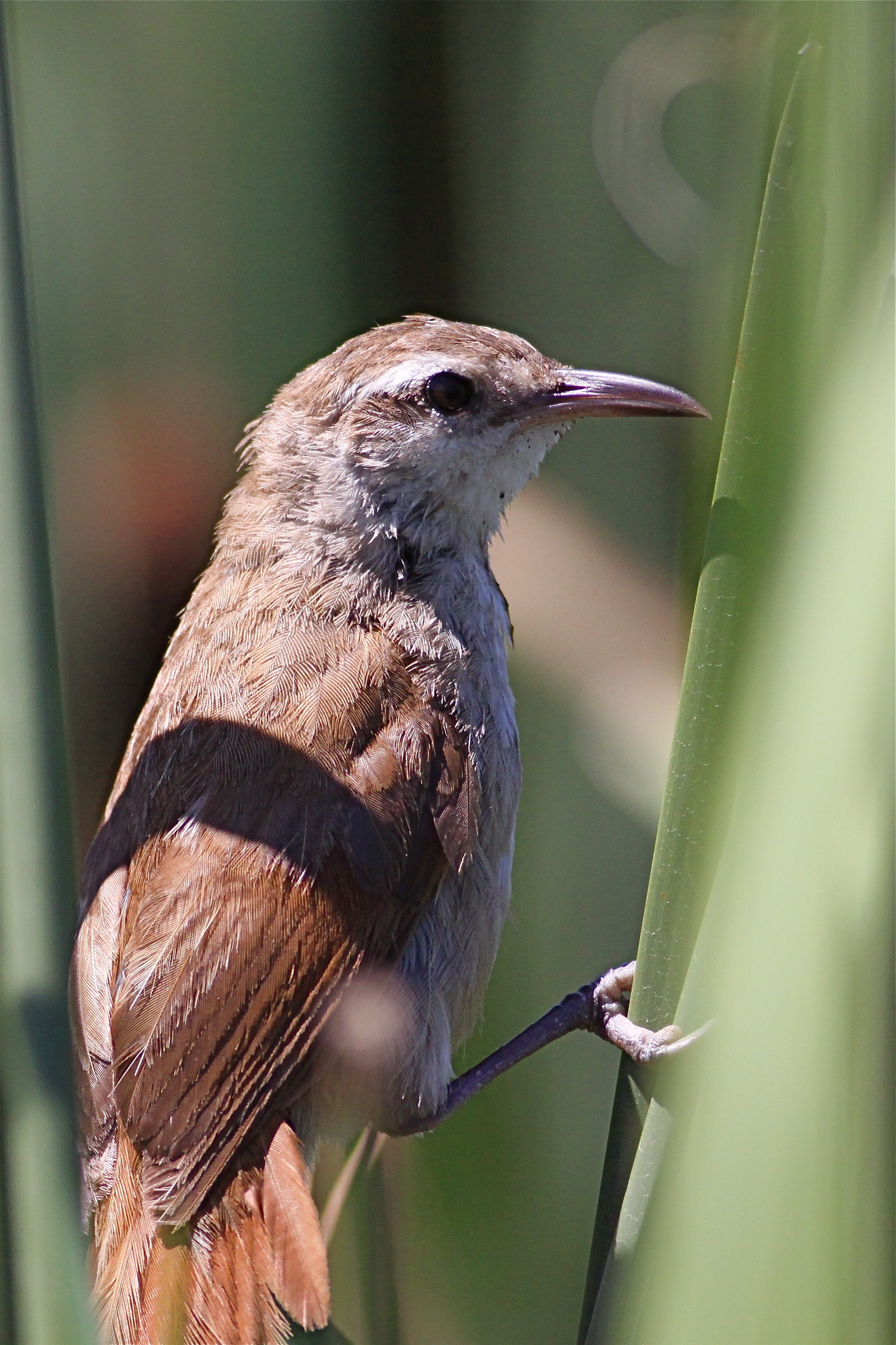 Curve-billed Reedhaunter (Limnornis curvirostris) Ceibas area, Entre Rios, Argentina